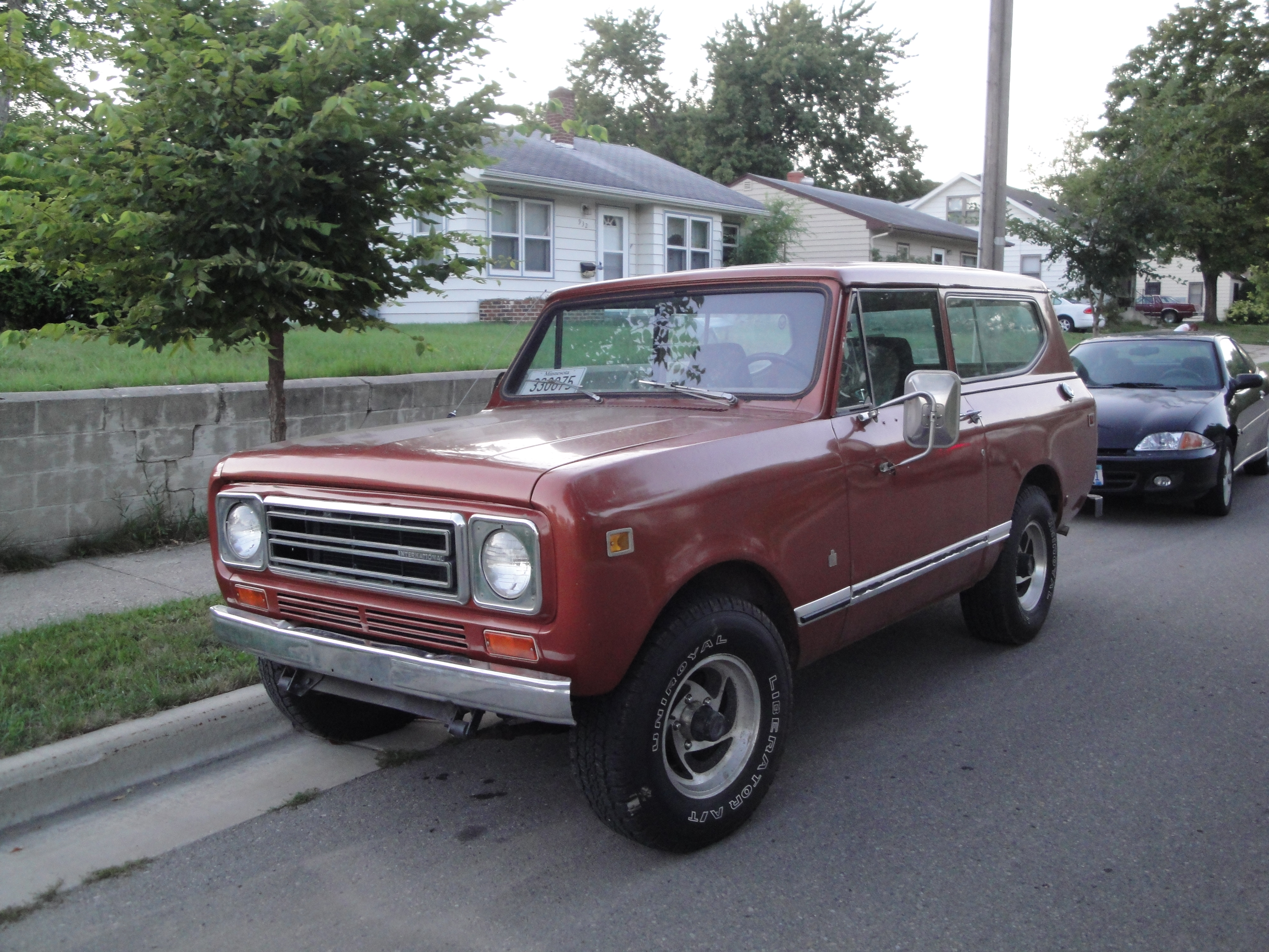 79 International Harvester Scout